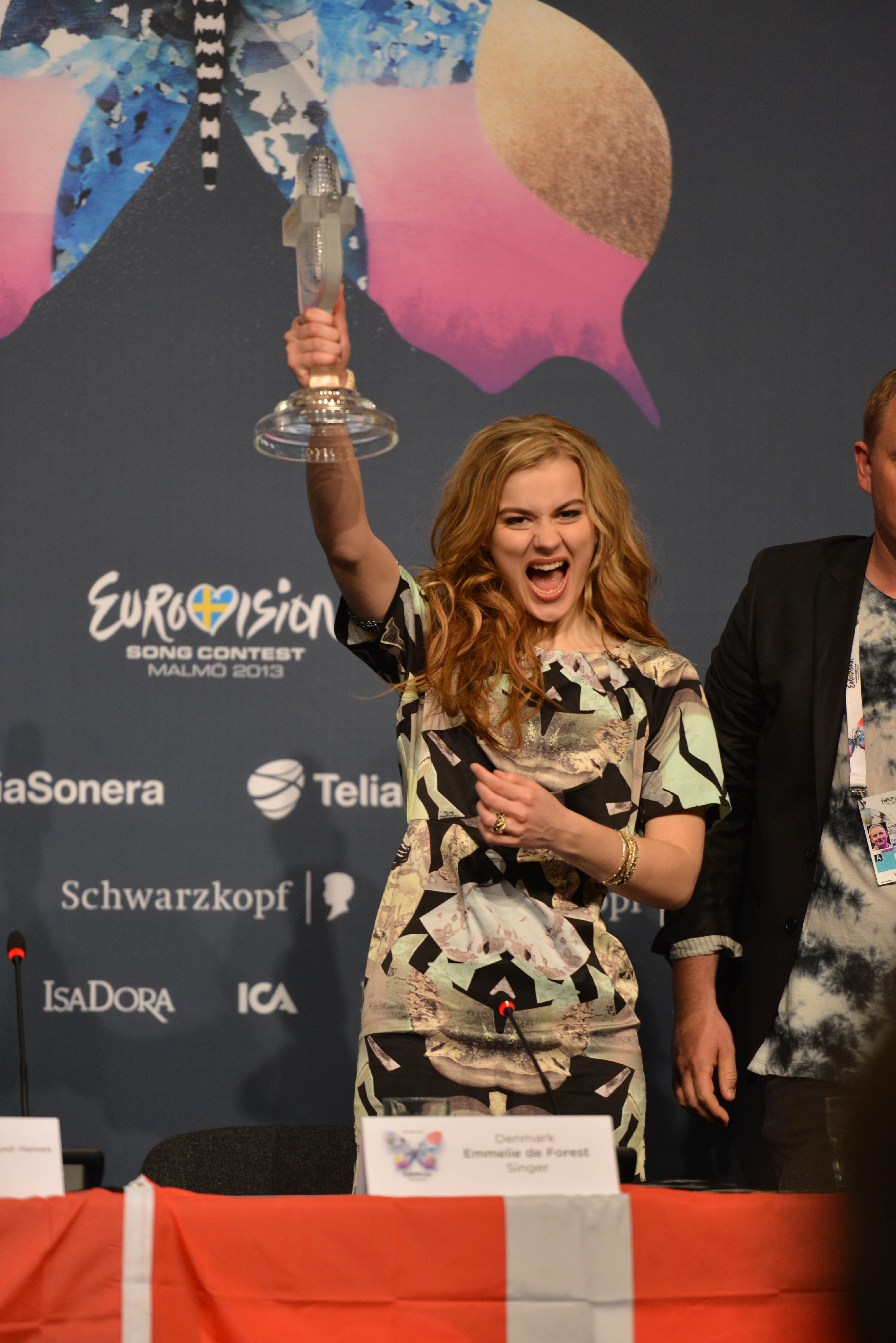 Emmelie de Forest at the winners press conference, right after winning the Eurovision Song Contest 2013 in Malmö. (Help translate this text)